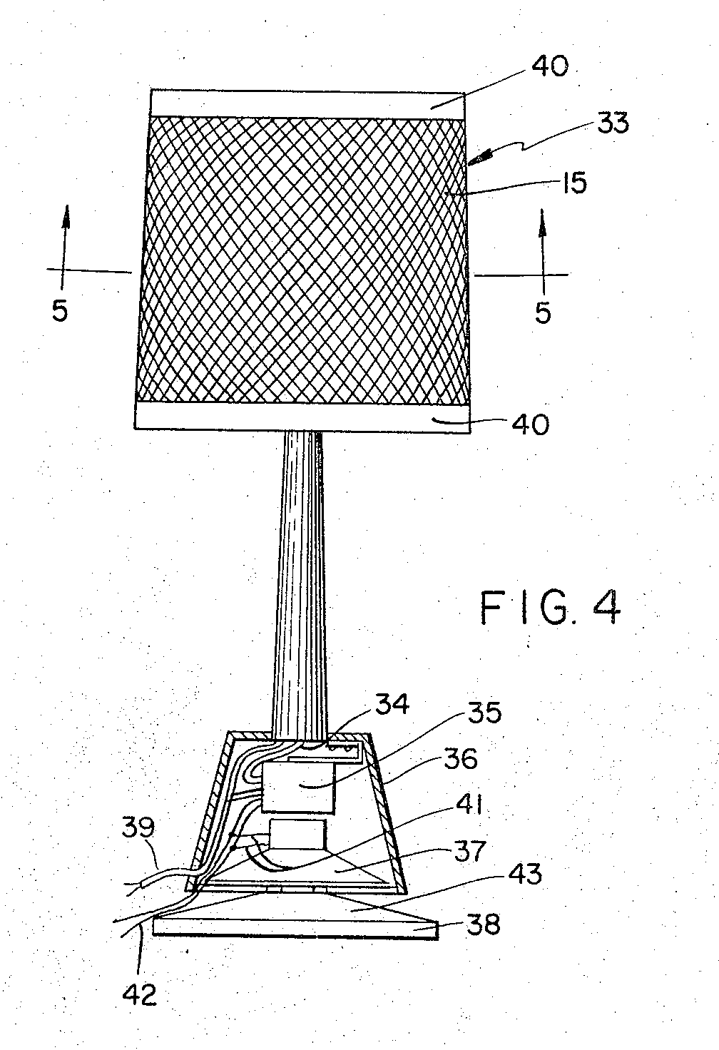 Cited from the Patent: An electrostatic loudspeaker comprised of a flexible wire mesh semi-rigid electrode and a flexible electrode with dielectric foil between them entrapping one or more strata of gas between one or more layers of foil and/or the flexible electrode. The structure is flexible enough to be rolled into a cylinder and used as a lampshade. The spacing between electrodes can be specified to provde bays of diffrenet spacings, to favor specified audible frequency bands.